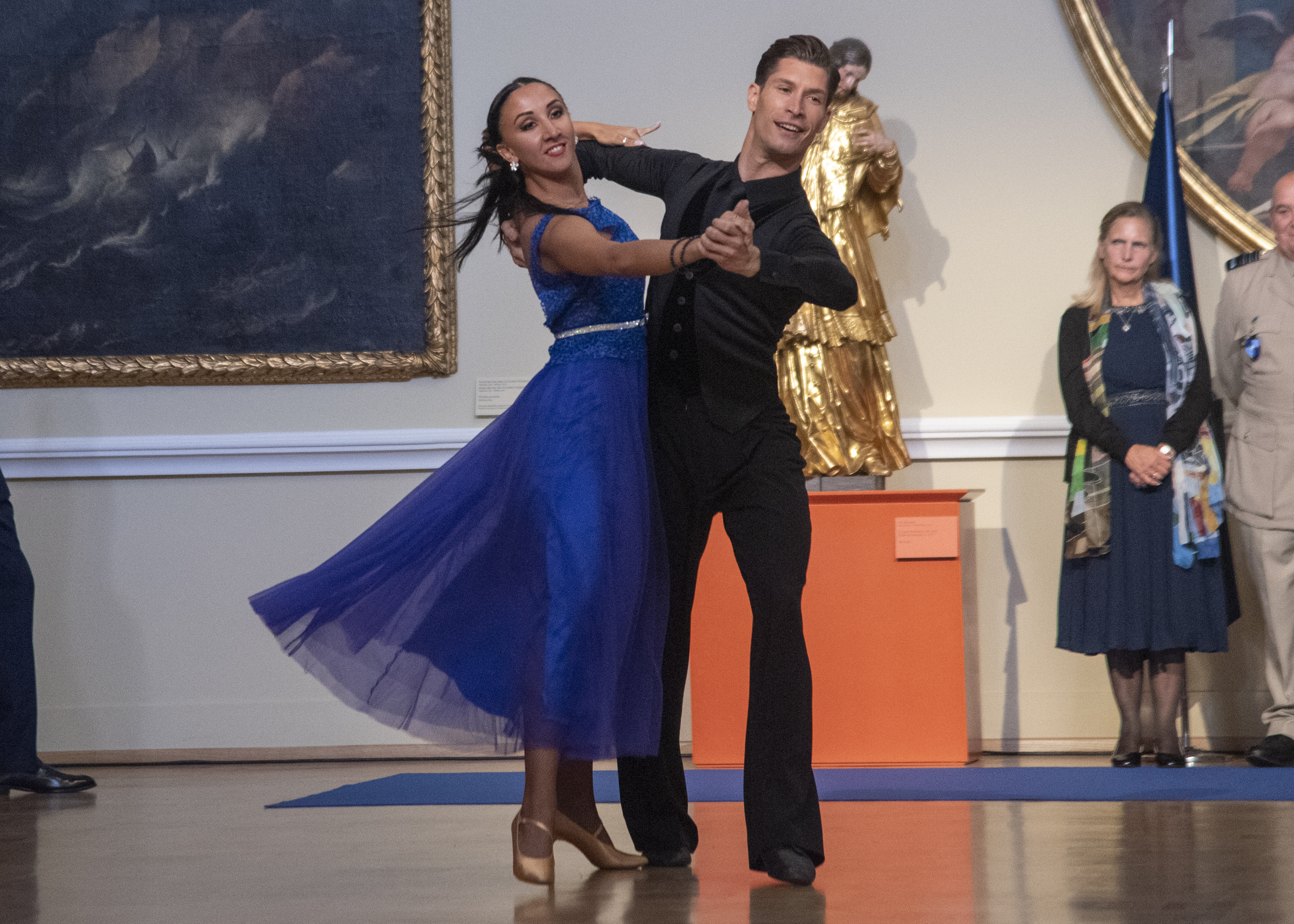 Slovenian dancers perform during the opening ceremony of the North Atlantic Treaty Organization Military Committee Conference at the National Gallery in Ljubljana, Slovenia, Sept. 13, 2019. (DOD photo by U.S. Navy Petty Officer 1st Class Dominique A. Pineiro)